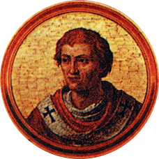 Portrait of Pope Clemens II